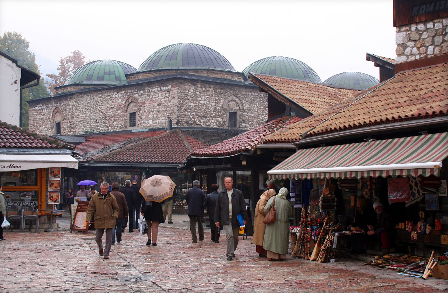 The Brusa Bezistan/Historical Museum of Sarajevo visible.